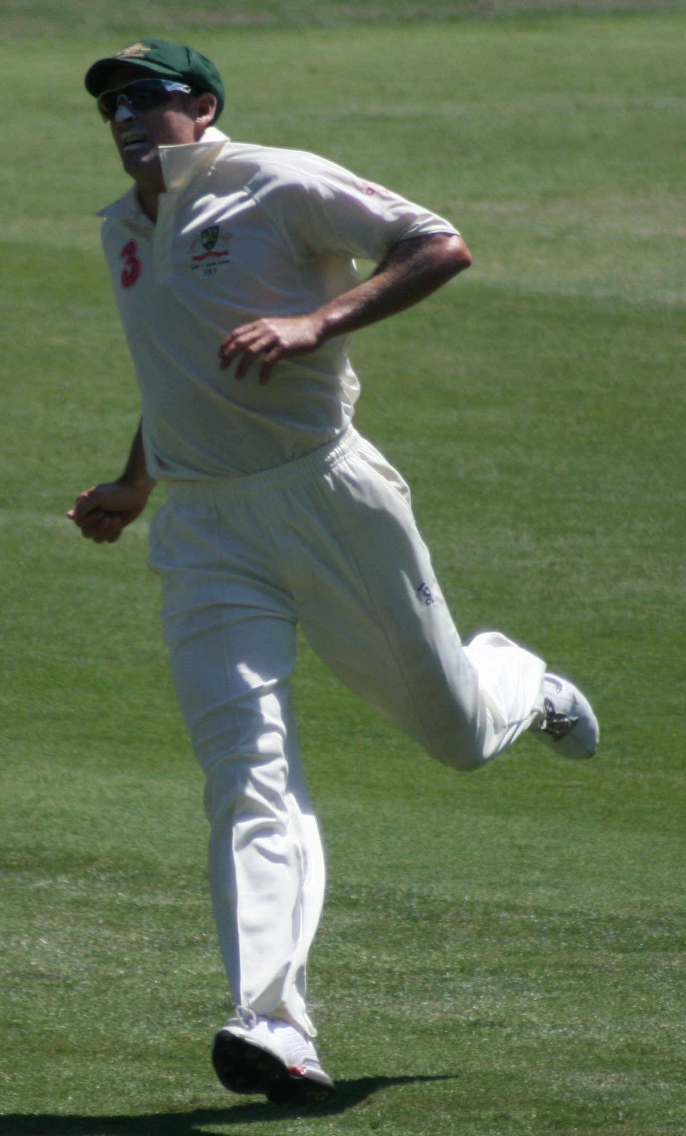 A cricket shot from Privatemusings, taken at the second day of the SCG Test between Australia and South Africa. Mike Hussey in the field.